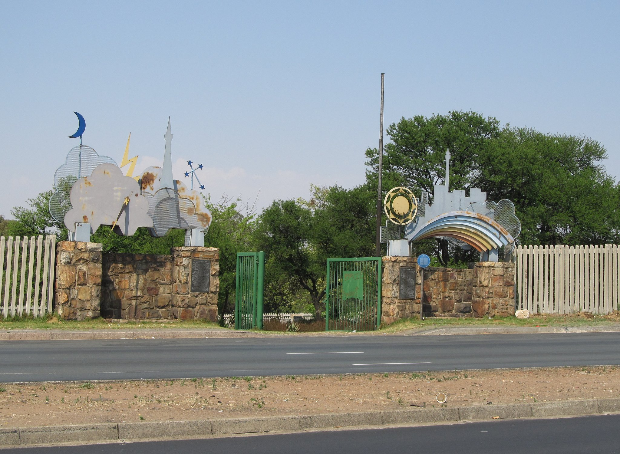 Street Entrance to George Harrison Park This media shows a South African Protected Site with SAHRA file reference 9/2/228/0196.